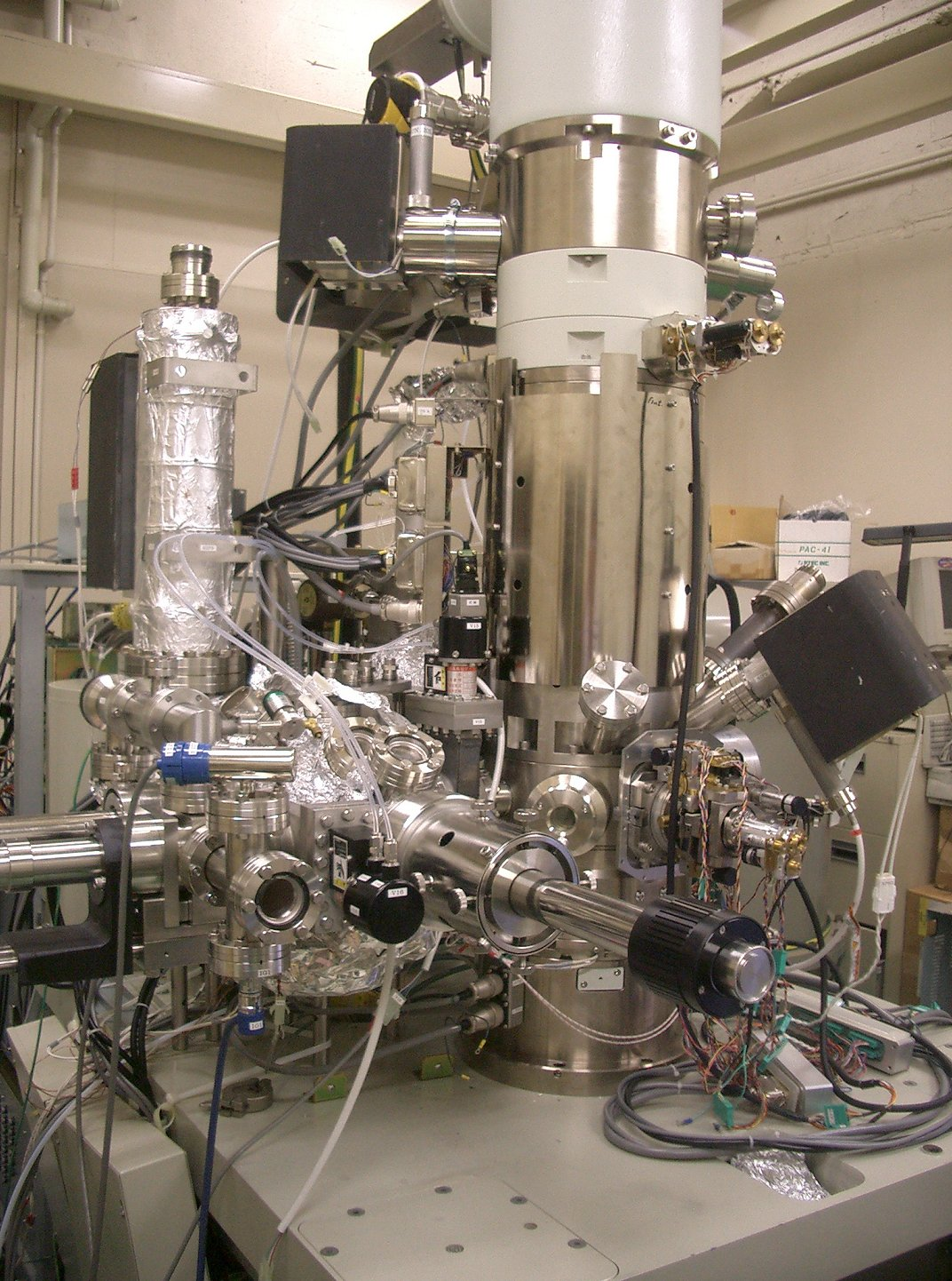 Scanning transmission electron microscope (200 kV Jeol prototype) equipped with a 3rd-order spherical aberration corrector.